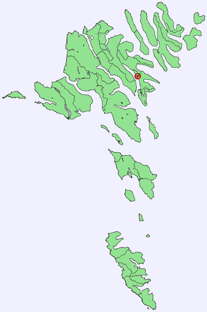 Position of Søldarfjørður in the Faroe Islands Graphics: Arne List